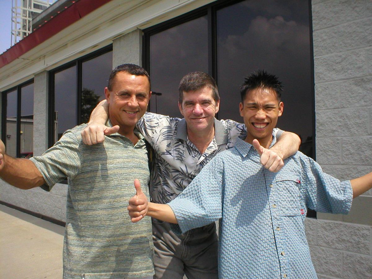 This is my personal picture and may be released to the public domain.